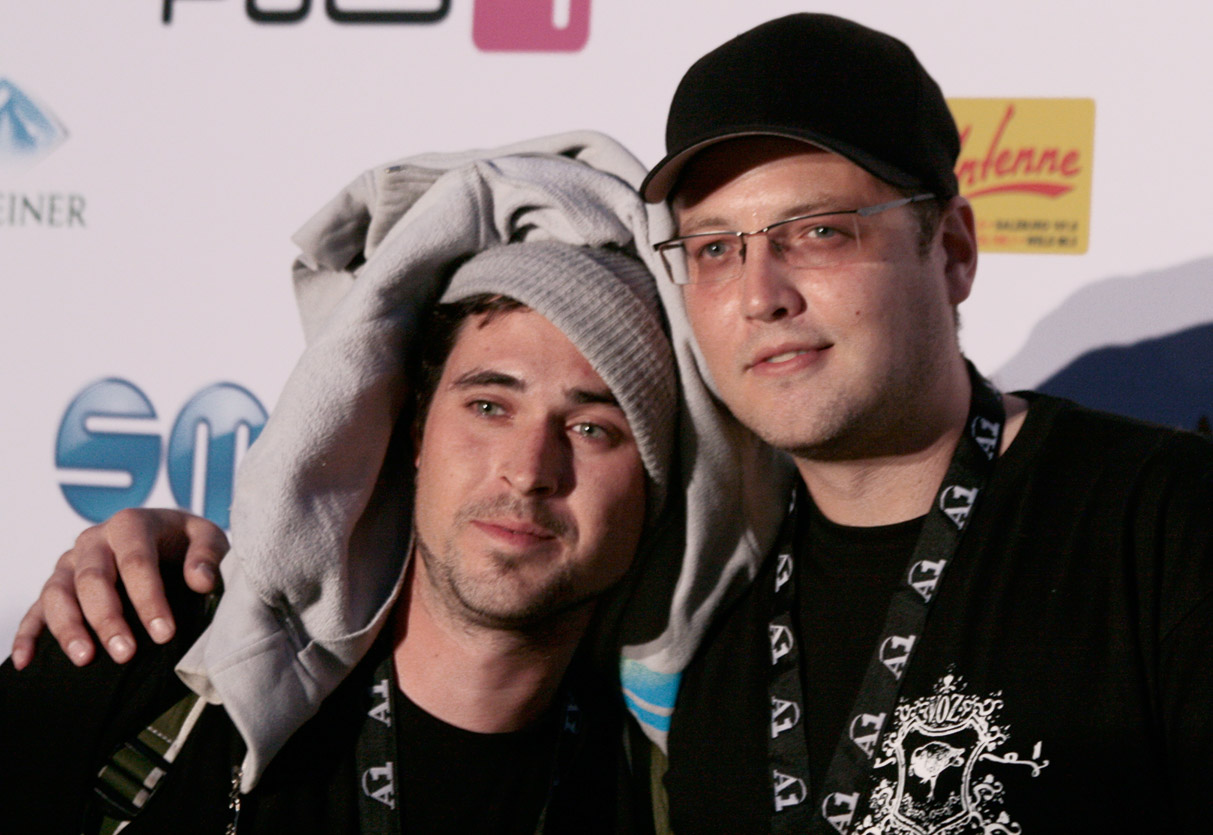 Kamp & Whizz Vienna at the Amadeus Austrian Music Award (Museumsquartier, Vienna)